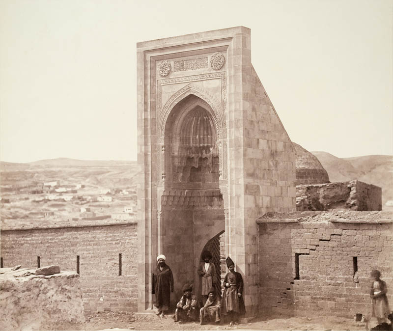 Shirvanshah palace (XV century)